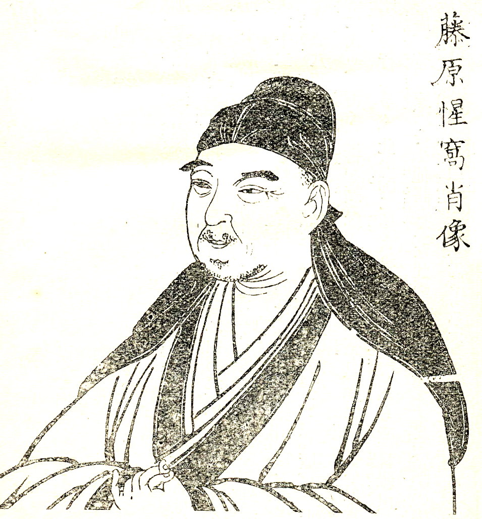 Fujiwara Seika (藤原 惺窩) was a Japanese philosopher, and a leading neo-Confucian of the early Edo Period.